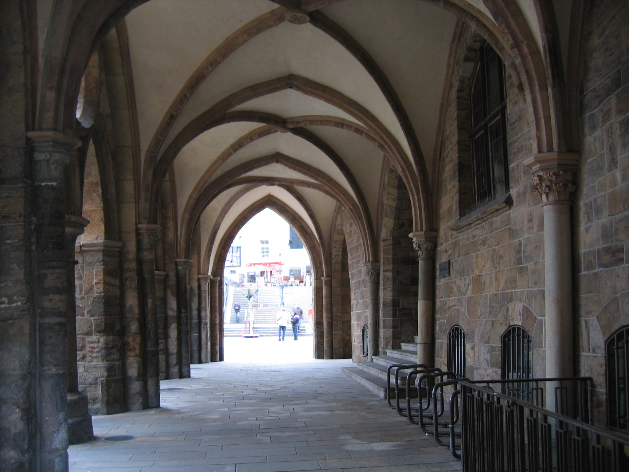 Arcades of Minden town hall, Minden-Lübbecke, North Rhine-Westphalia, Germany.